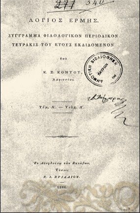 Logios Ermis title page, 19th century Greek literature magazine published by Constantine S. Contos